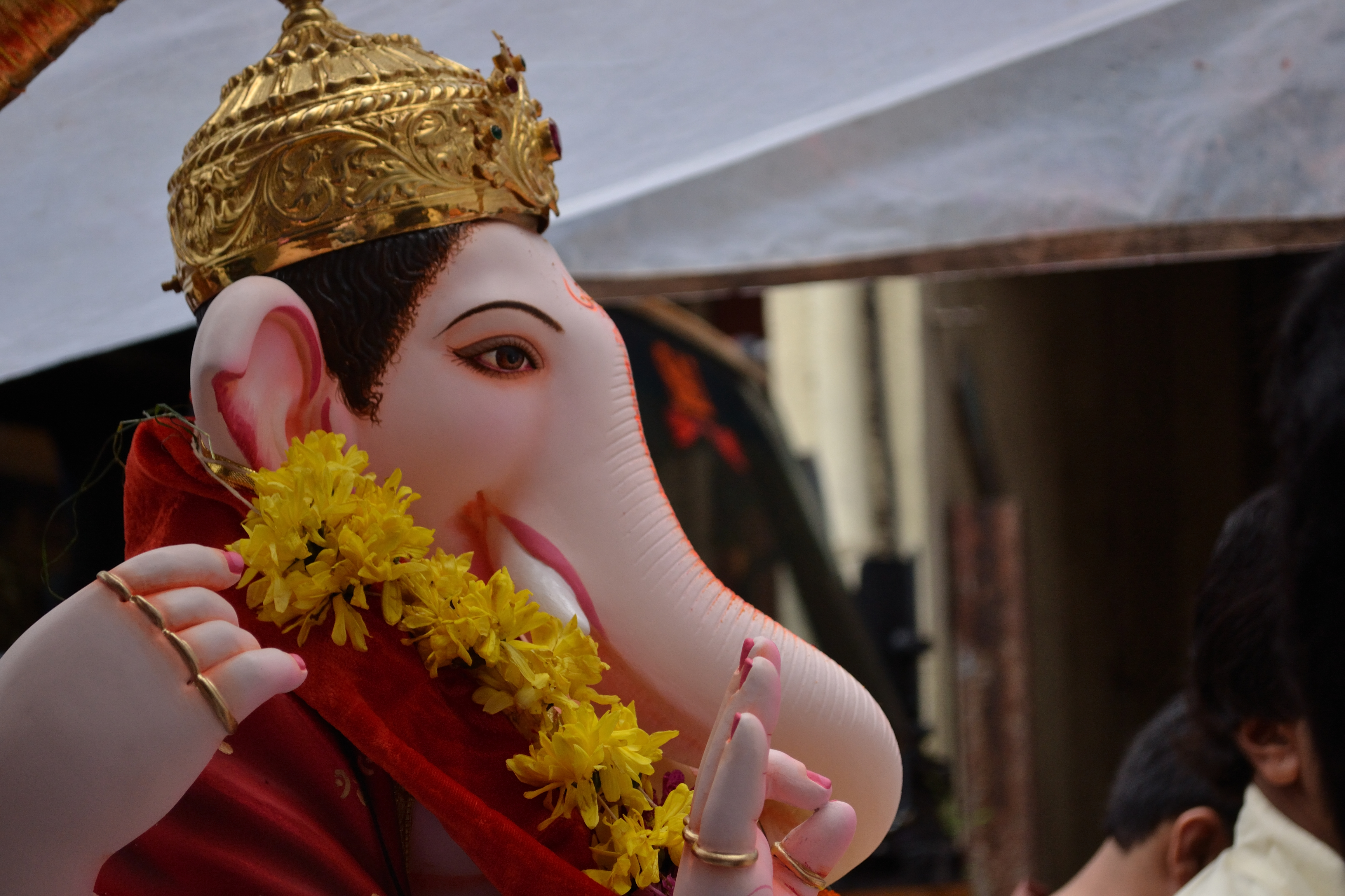 Ganpati Festival,Pune.